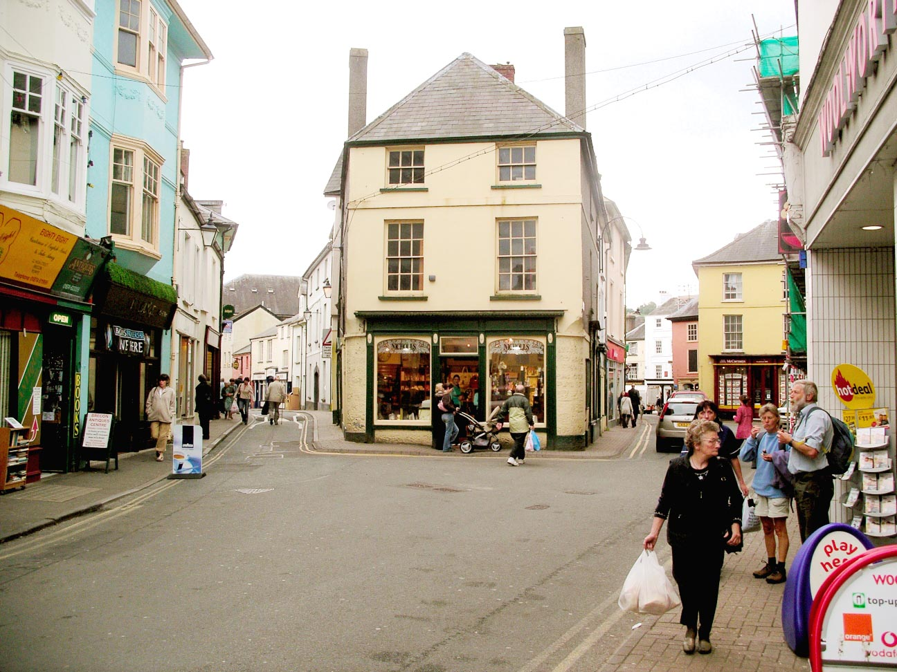 Brecon town shopping centre